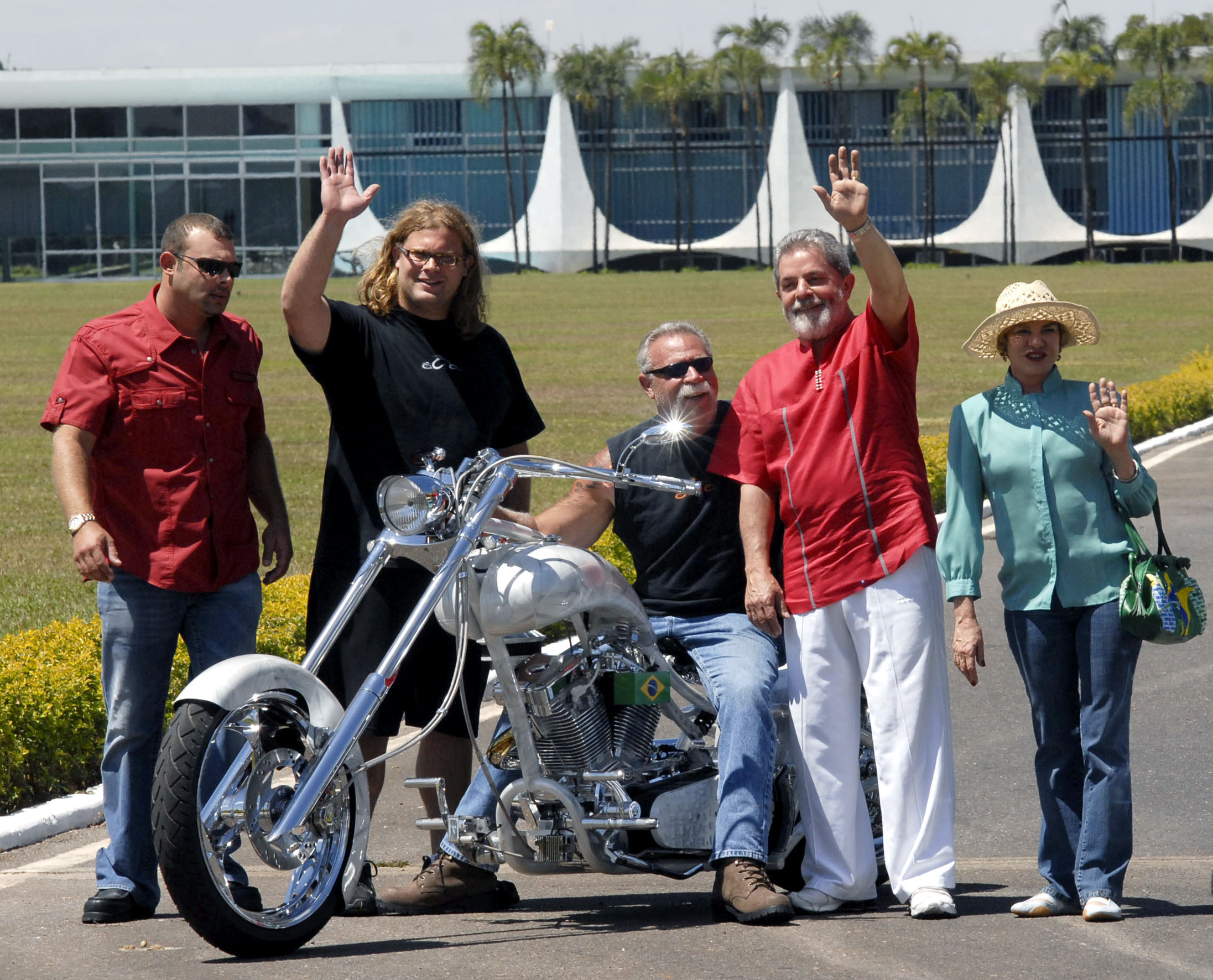 American Choppers TV hosts Paul Senior, Paul Junior e Mickey with Brazilian President Lula and First-Lady Marisa Letícia.